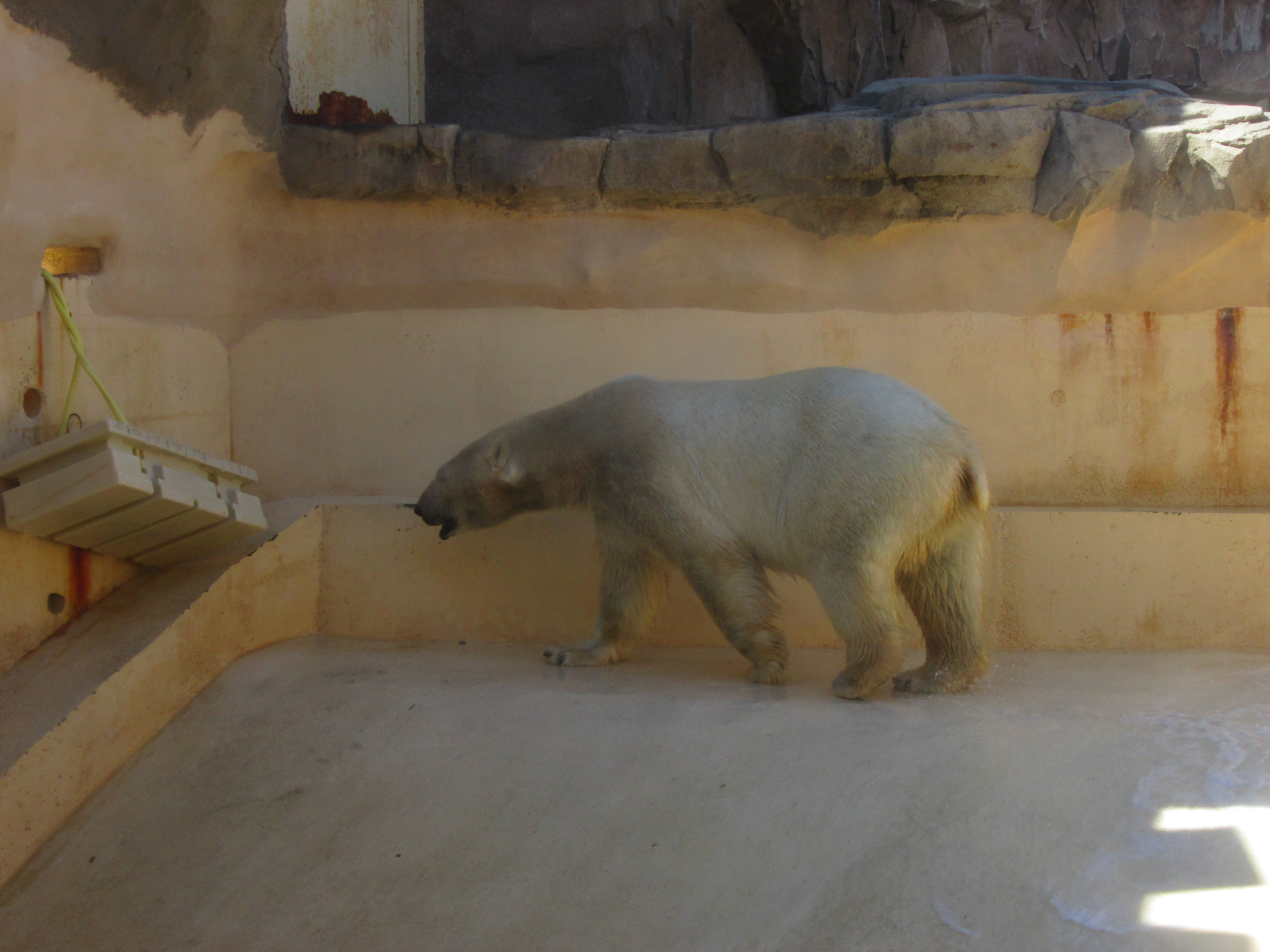 Polar bear at Marineland of Antibes FRANCE